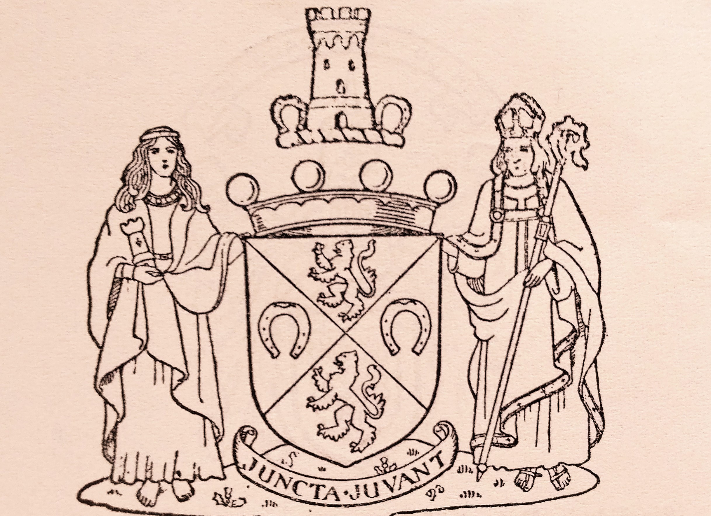 Noble Coat of Arms engraving, early 20th century.